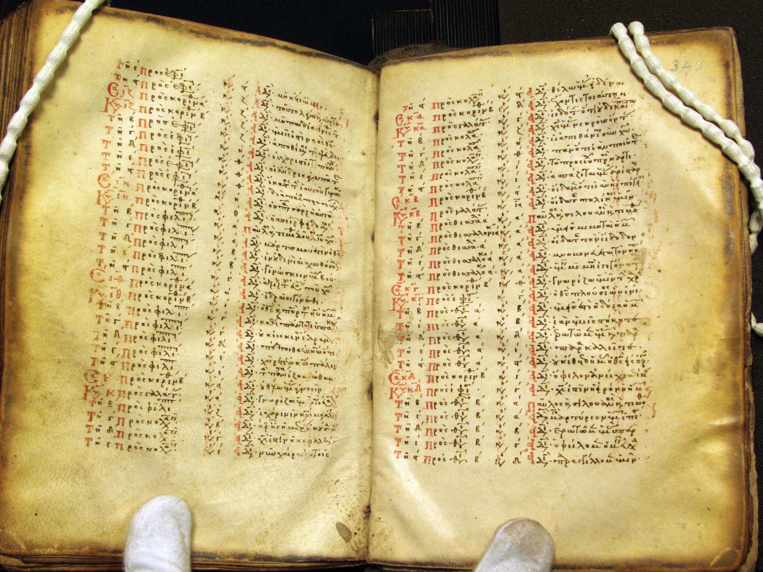 Folio 339 verso and 340 recto of the codex with the Euthalian Apparatus.